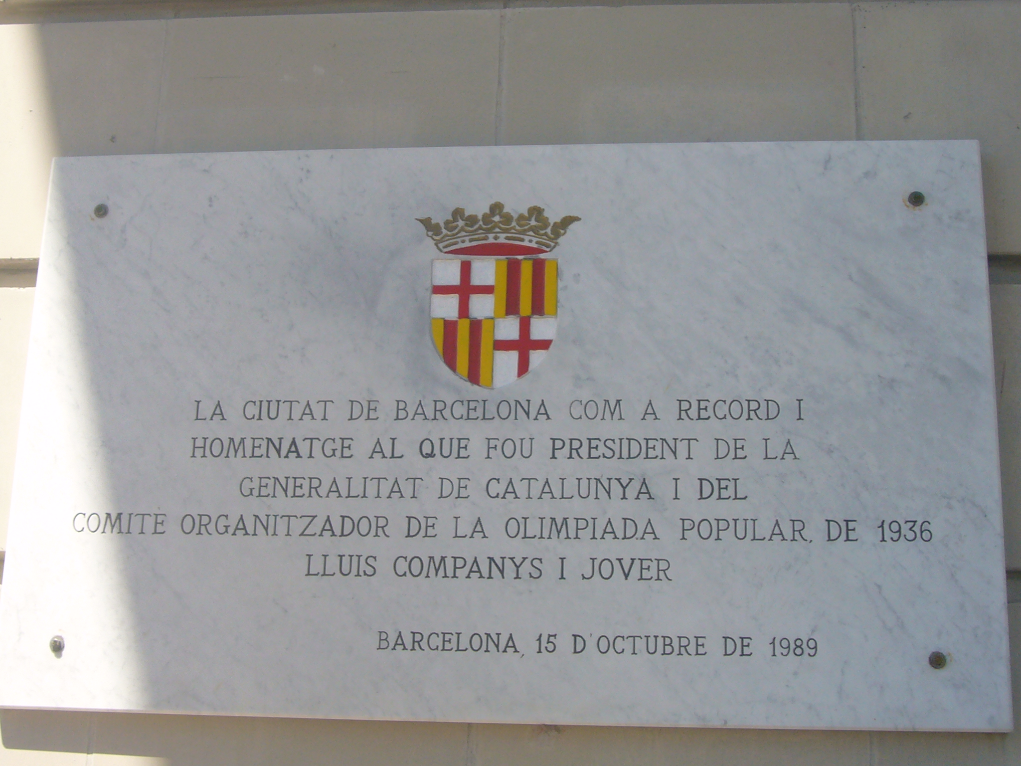 Plaque at the entrance of Estadi Olímpic Lluís Companys